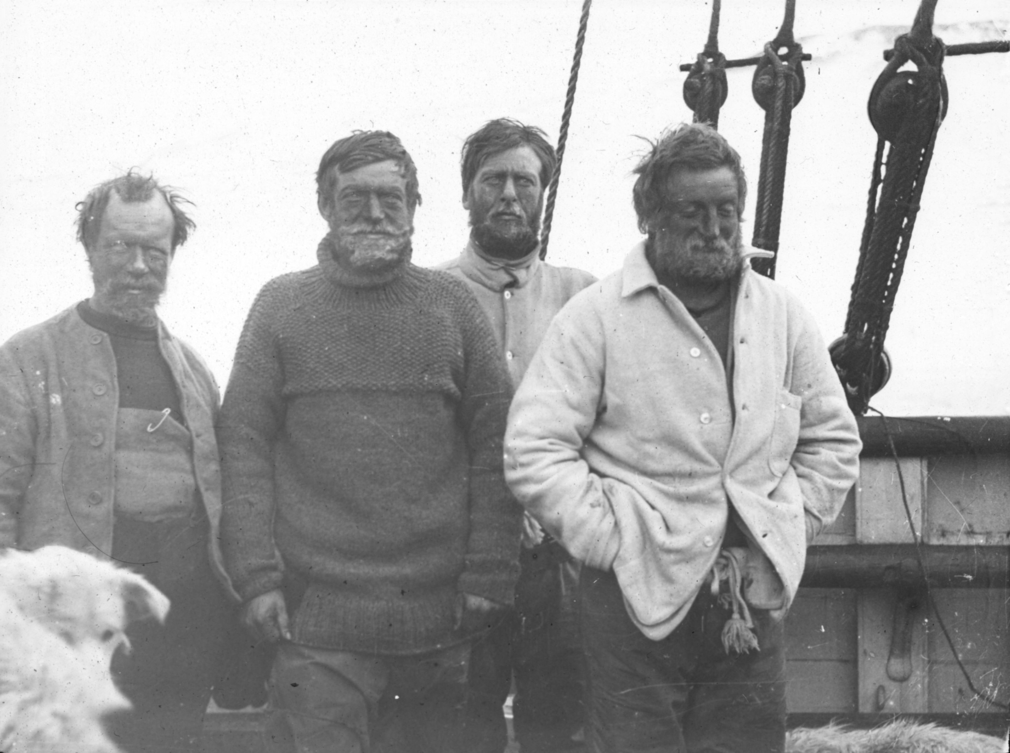 Photographs of the Nimrod Expedition (1907-09) to the Antarctic, led by Ernest Sheckleton